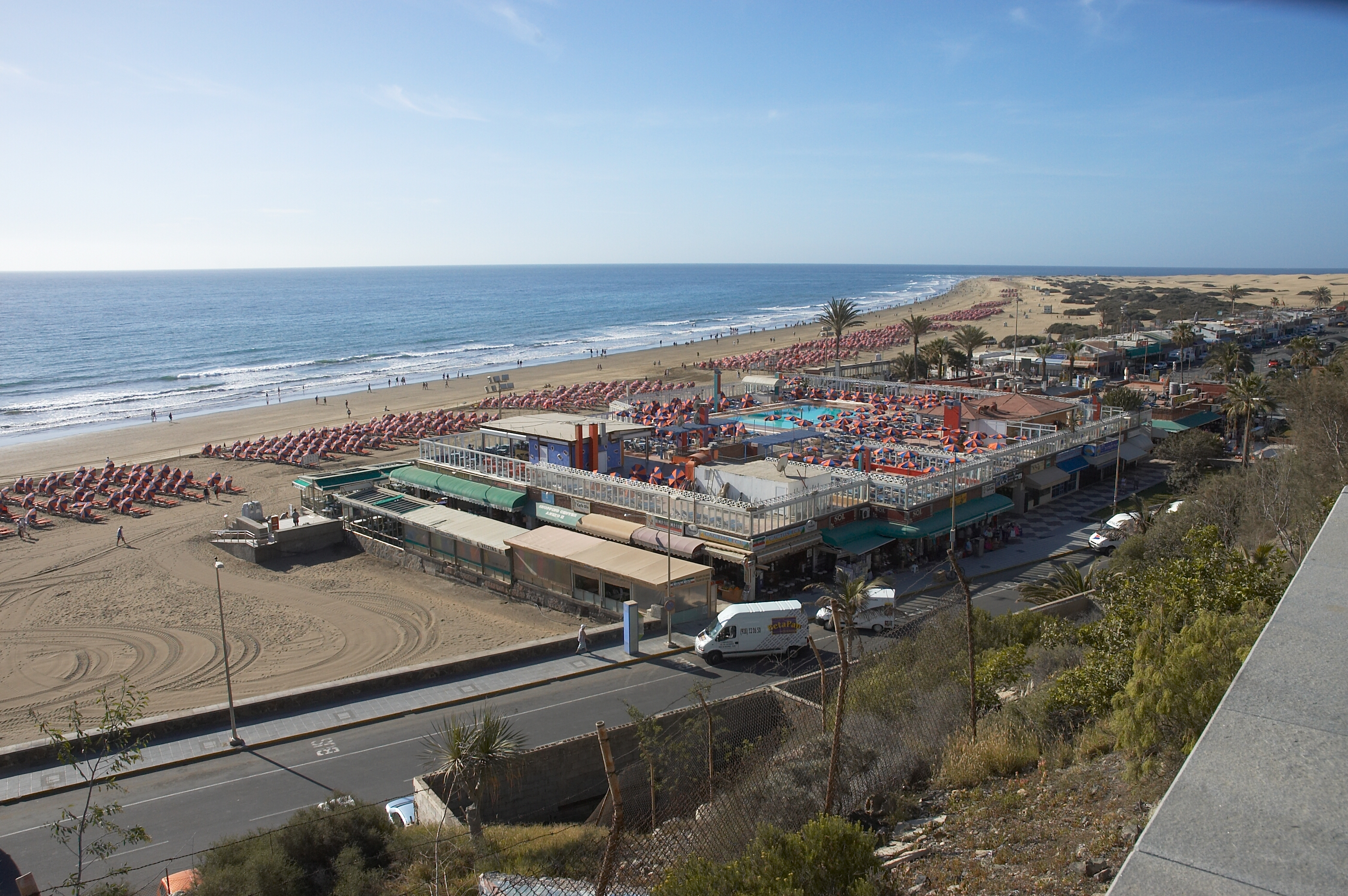 Gran Canaria, Playa del Inglés shopping centre and the beach. Looking direction South